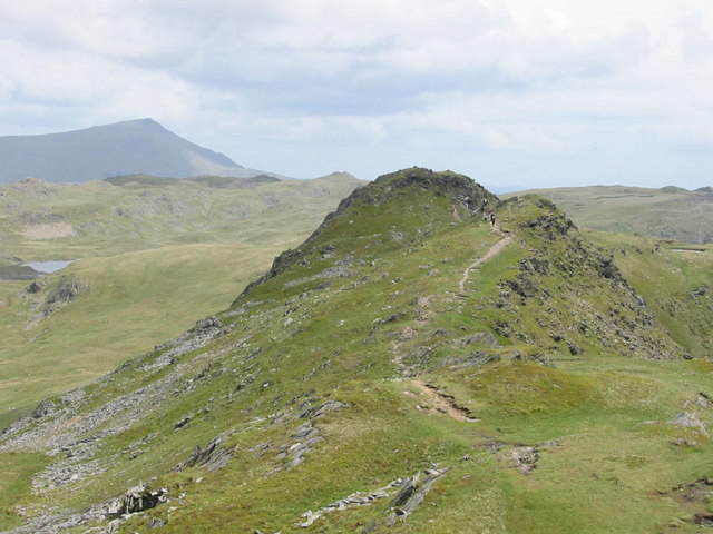 Cnicht, NE top, 3 km from Croesor, Gwynedd, Wales. Moel Siabod in the background